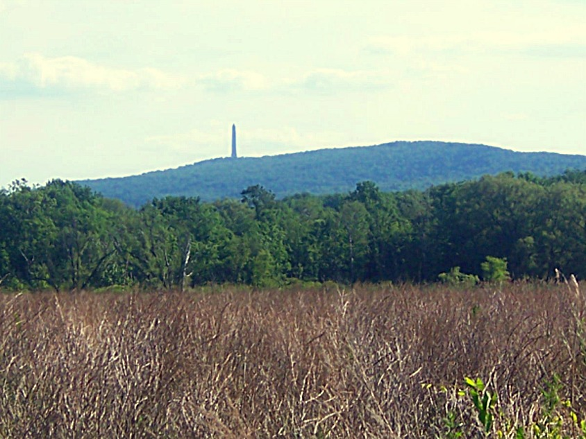 High Point, New Jersey, USA